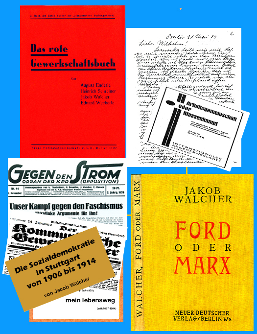 image shows a selection of publications by Jacob Walcher